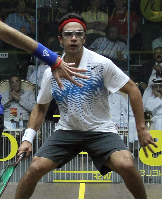 Mohamed Abouelghar during the 2012 World Squash Junior Championship Final